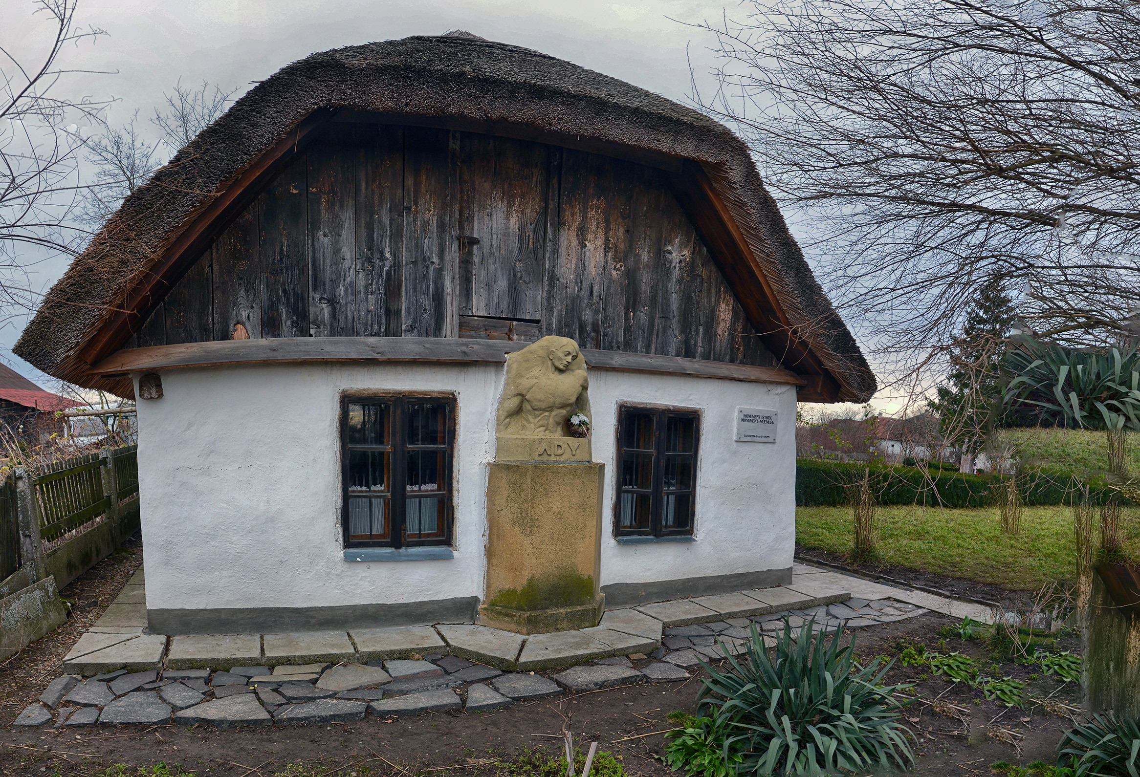 Birthplace of Hungarian poet Endre Ady in Ady Endre, Romania